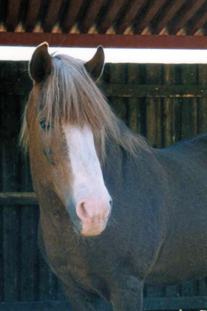 Finnhorse stallion Kelmi at the age of 26.